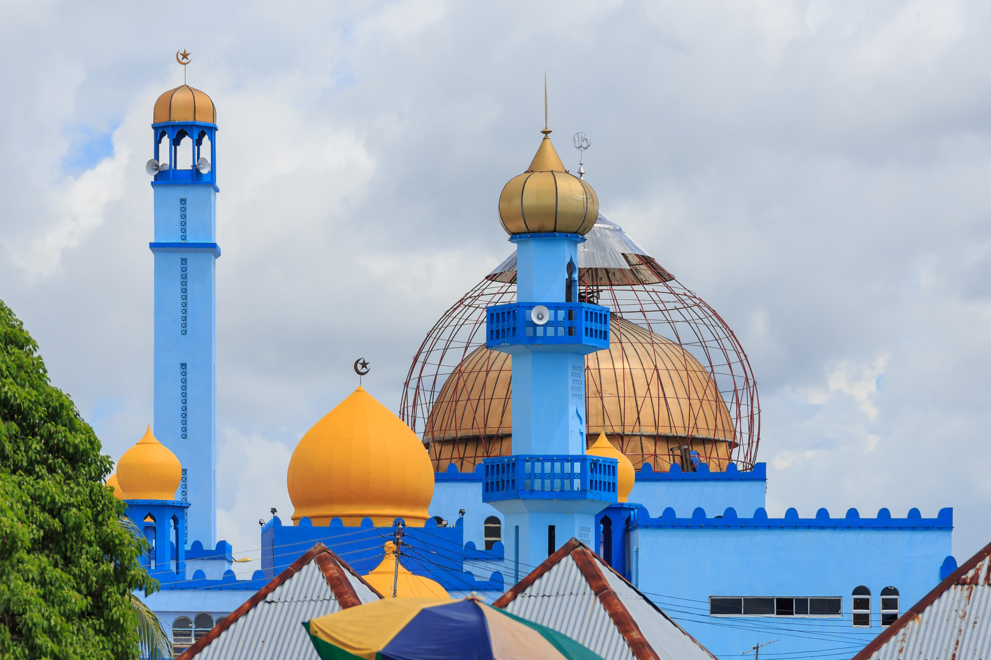 Semporna, Sabah: Roofs and cupolas of Semporna City Mosque